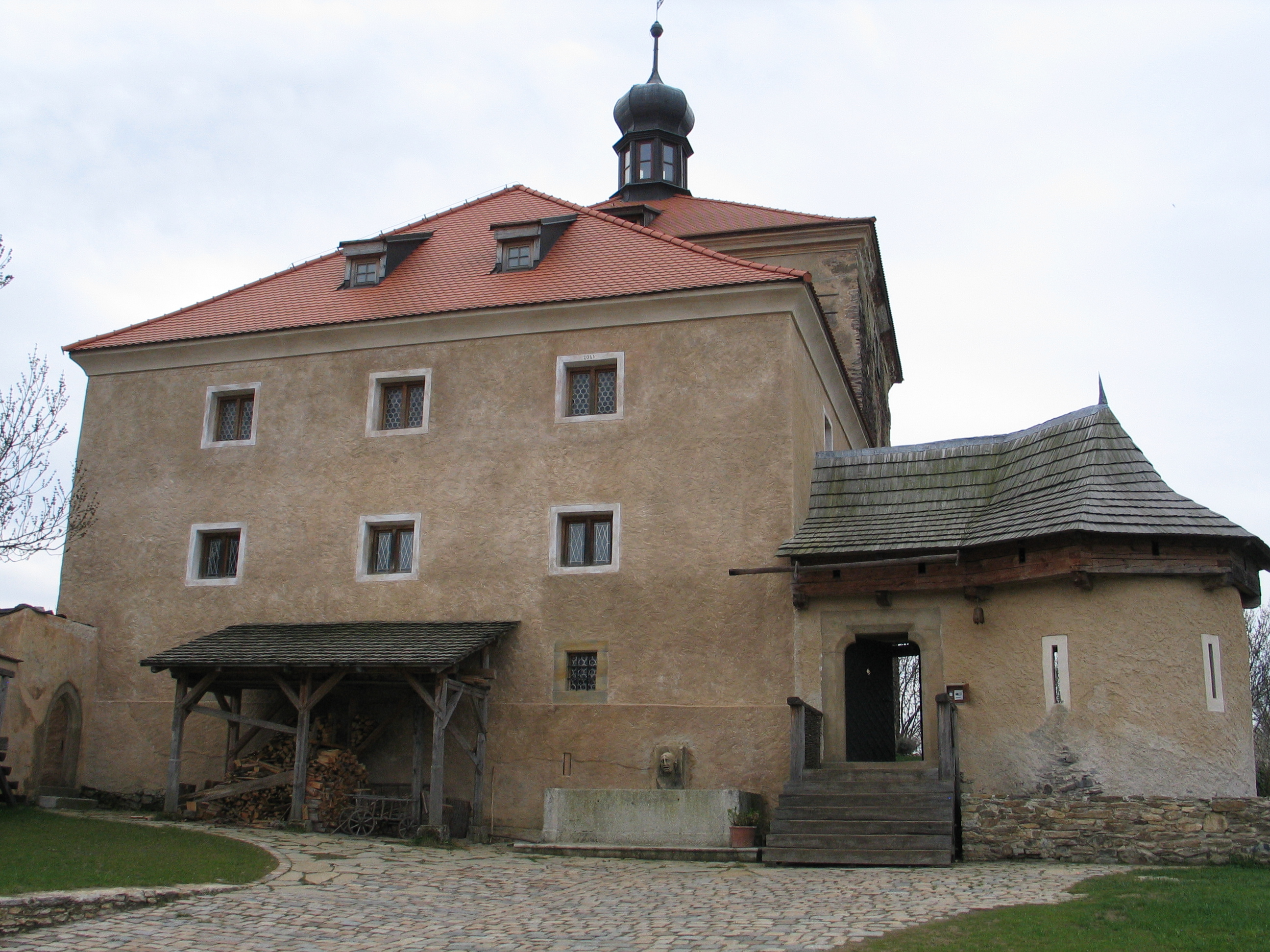 view north